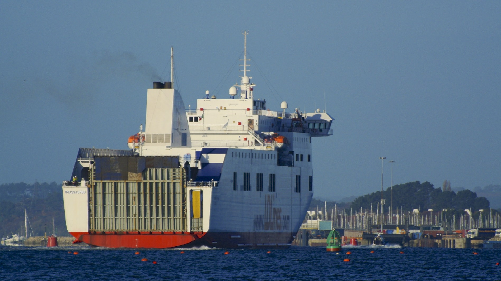 This is the largest vessel to use Poole harbour. This sequence shows the docking procedure at Poole Quay, about a mile or more from where I was standing. It pulls alongside the quay facing the direction it arrived - I assume to let off foot passengers? About twenty minutes later the tugs turn it round so vehicles can disembark from the rear.